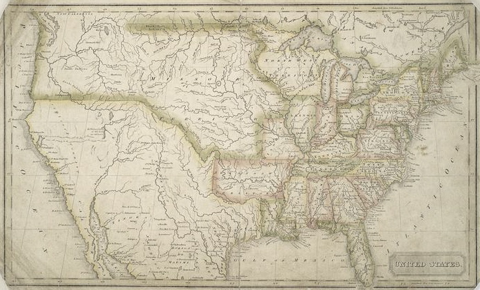 United States map. Creator: Morse, Jedidiah, 1761-1826 -- Geographer. Additional Name(s): Annin & Smith -- Engraver. Richardson & Lord -- Publisher. Published Date: [1824?]. Item Physical Description: 1 map : hand col. ; 25 x 44 cm. Notes: "Engraved for Morse's school geography." Note 2.) From Jedidiah Morse's New system of geography, ancient and modern. Note 3.) National Endowment for the Humanities Grant for Access to Early Maps of the Middle Atlantic Seaboard. Note 4.) On lower right corner: Annin & Smith. Note 5.) Prime meridians: Washington and Greenwich.